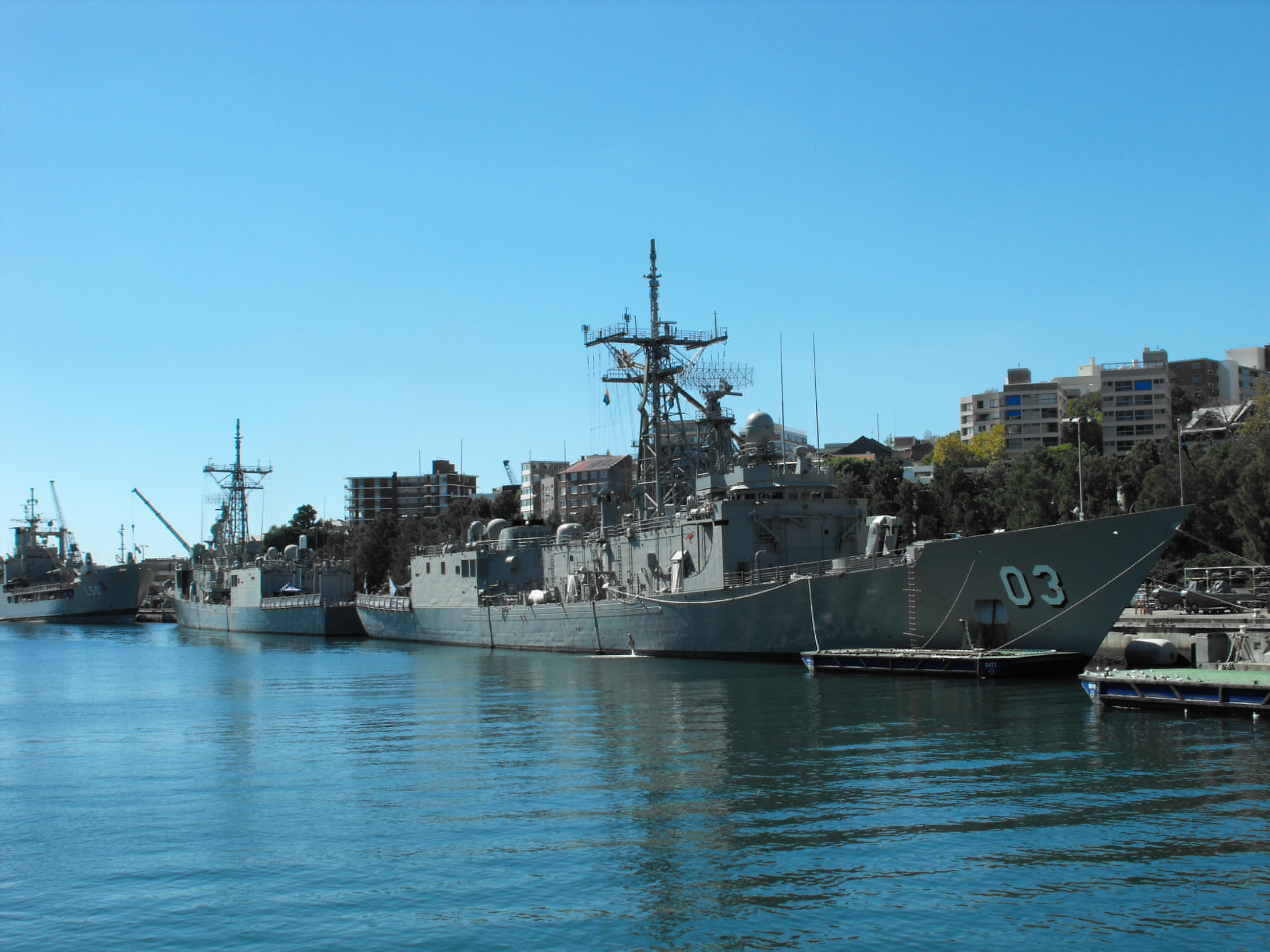 Two Adelaide class frigates, HMA Ships '"Sydney (foreground) and Darwin docked alongside at Garden Island, Sydney